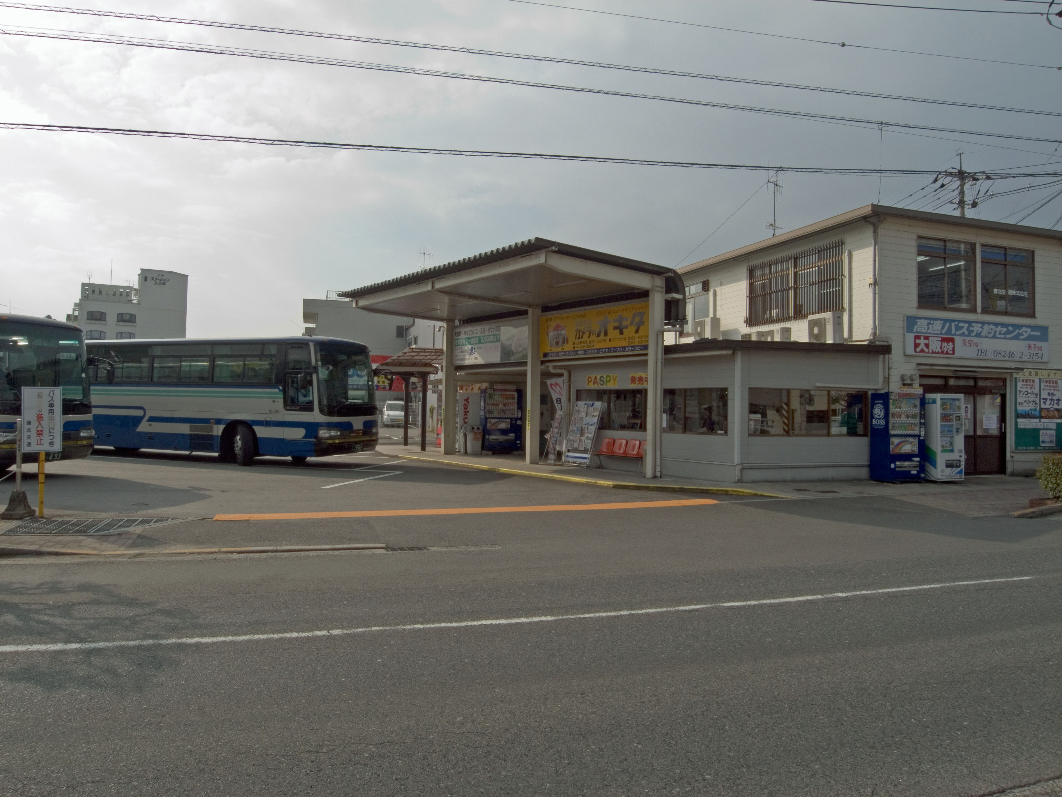 Miyoshi bus center, Miyoshi, Hiroshima, Japan